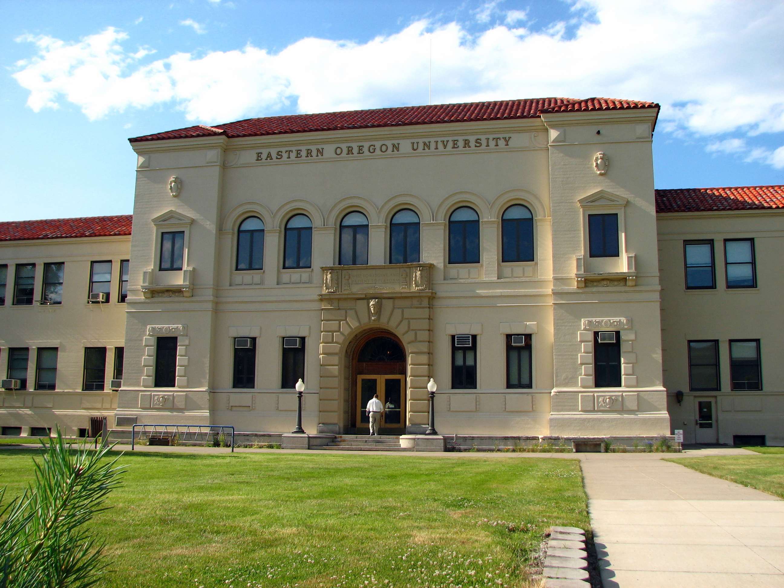 Eastern Oregon University's Inlow Hall (built 1927), located in La Grande, Oregon, United States, is listed on the US National Register of Historic Places as "Administration Building". More images